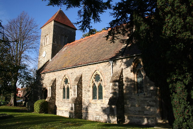 St.Giles church, Darlton. The A57 rumbles past the tiny church at Darlton. Almost entirely rebuilt in the 19th century but with a medieval arcade inside.